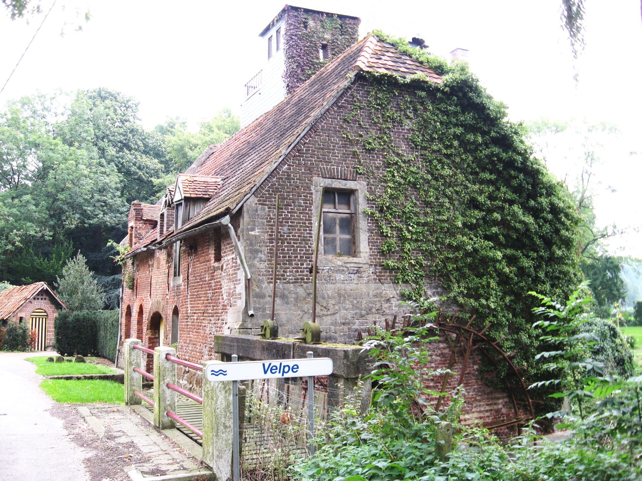 Rotemse Molen at the Velpe in Halen, Limburg, Belgium